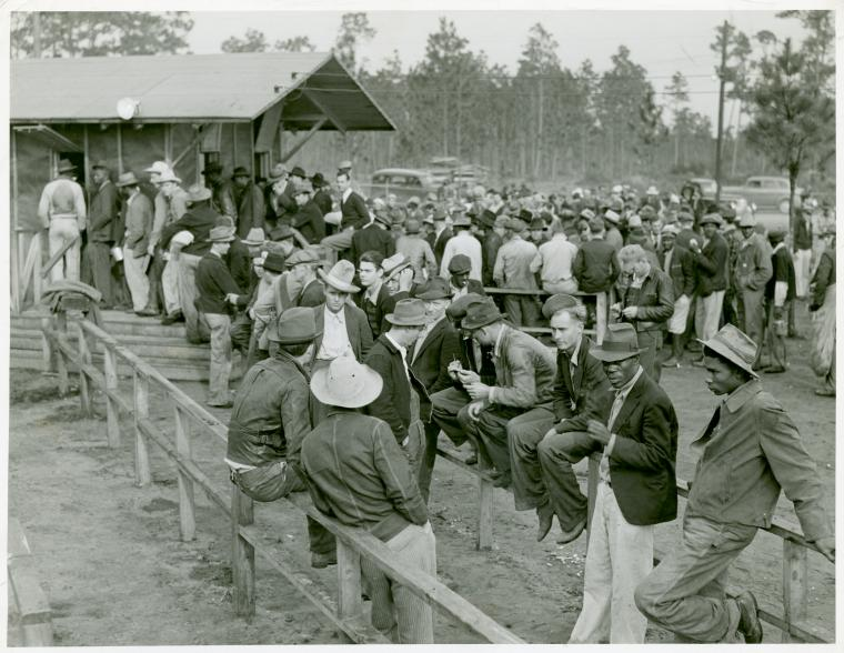 Digital ID: 1259993. Carpenters and construction workers waiting outside Florida State employment office trying to get jobs on Camp Blanding, Starke, Florida. Dec. 1940. Wolcott, Marion Post -- Photographer. December 1940 Notes: Original negative #: 56746-D Source: Farm Security Administration Collection. / Florida. / Marion Post Wolcott. (more info) Repository: The New York Public Library. Schomburg Center for Research in Black Culture. Photographs and Prints Division. See more information about this image and others at NYPL Digital Gallery. Persistent URL: Rights Info: No known copyright restrictions; may be subject to third party rights (for more information, click here)